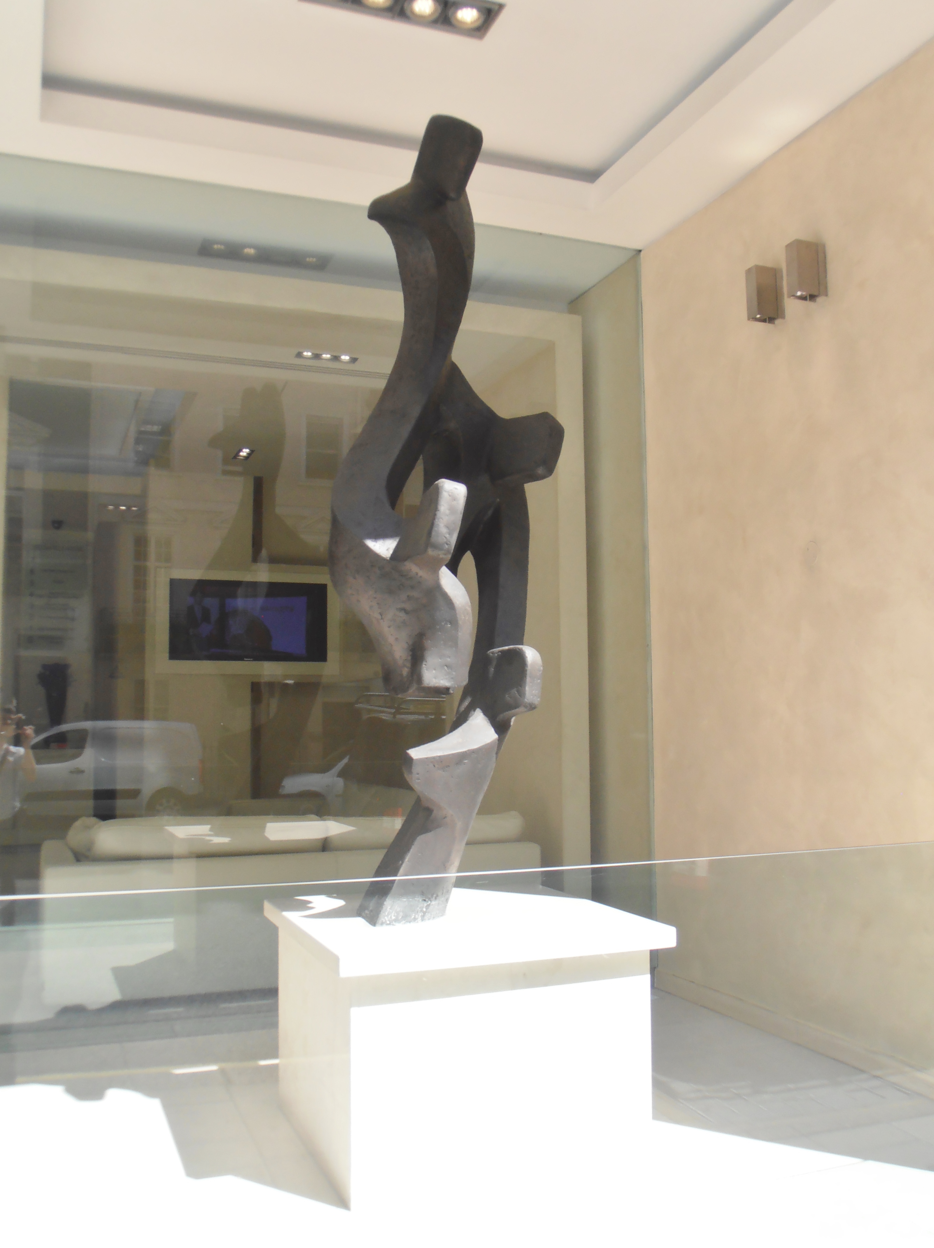 Aspiration (2006) by John Brown, outside Leconfield House, Curzon Street, Mayfair, London W1. The making of this file was supported by Wikimedia UK.